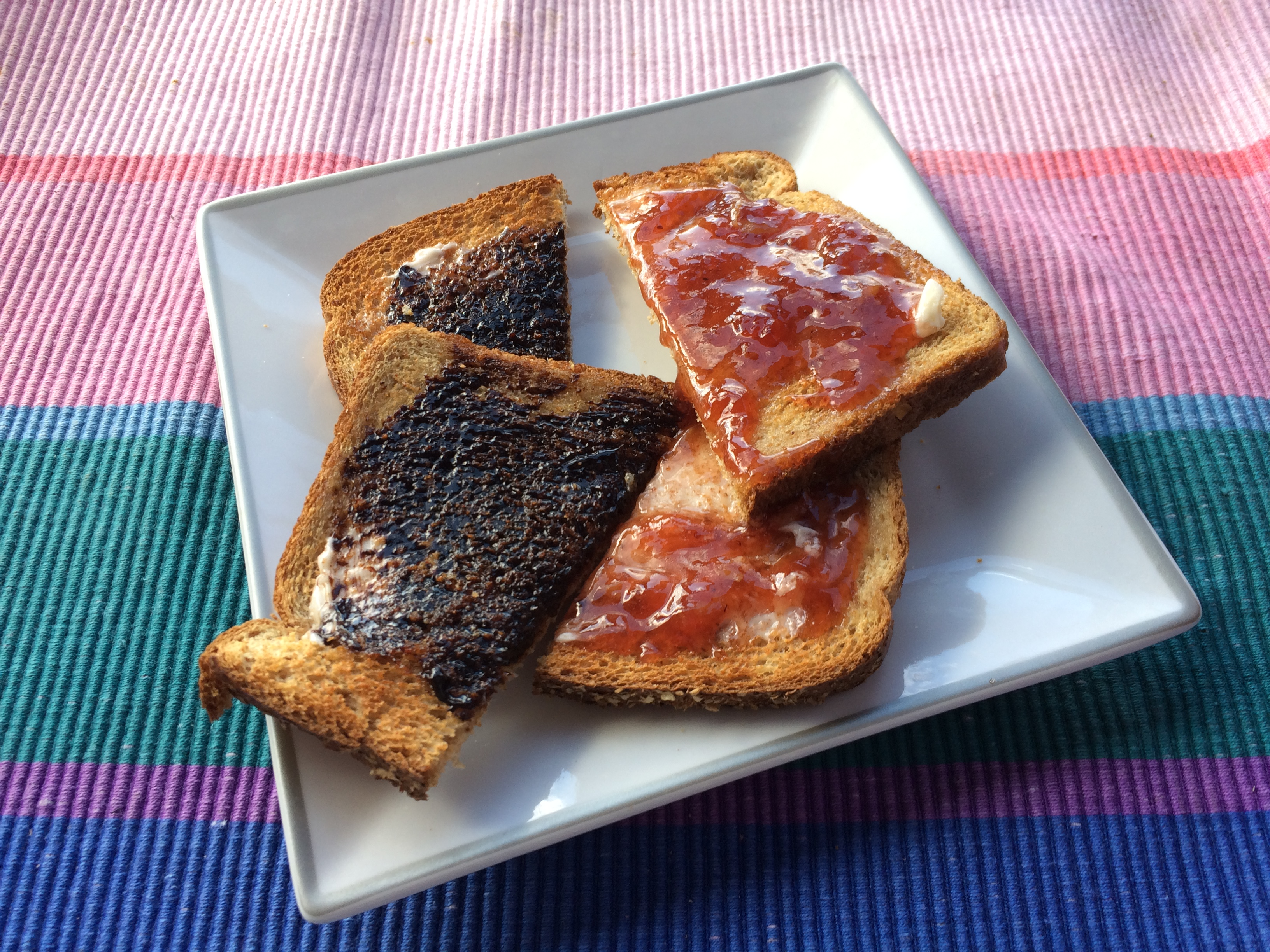 Left: Butter and vegemite (A dark brown Australian food paste made from leftover brewers' yeast) toast. Right: Butter and strawberry jelly toast